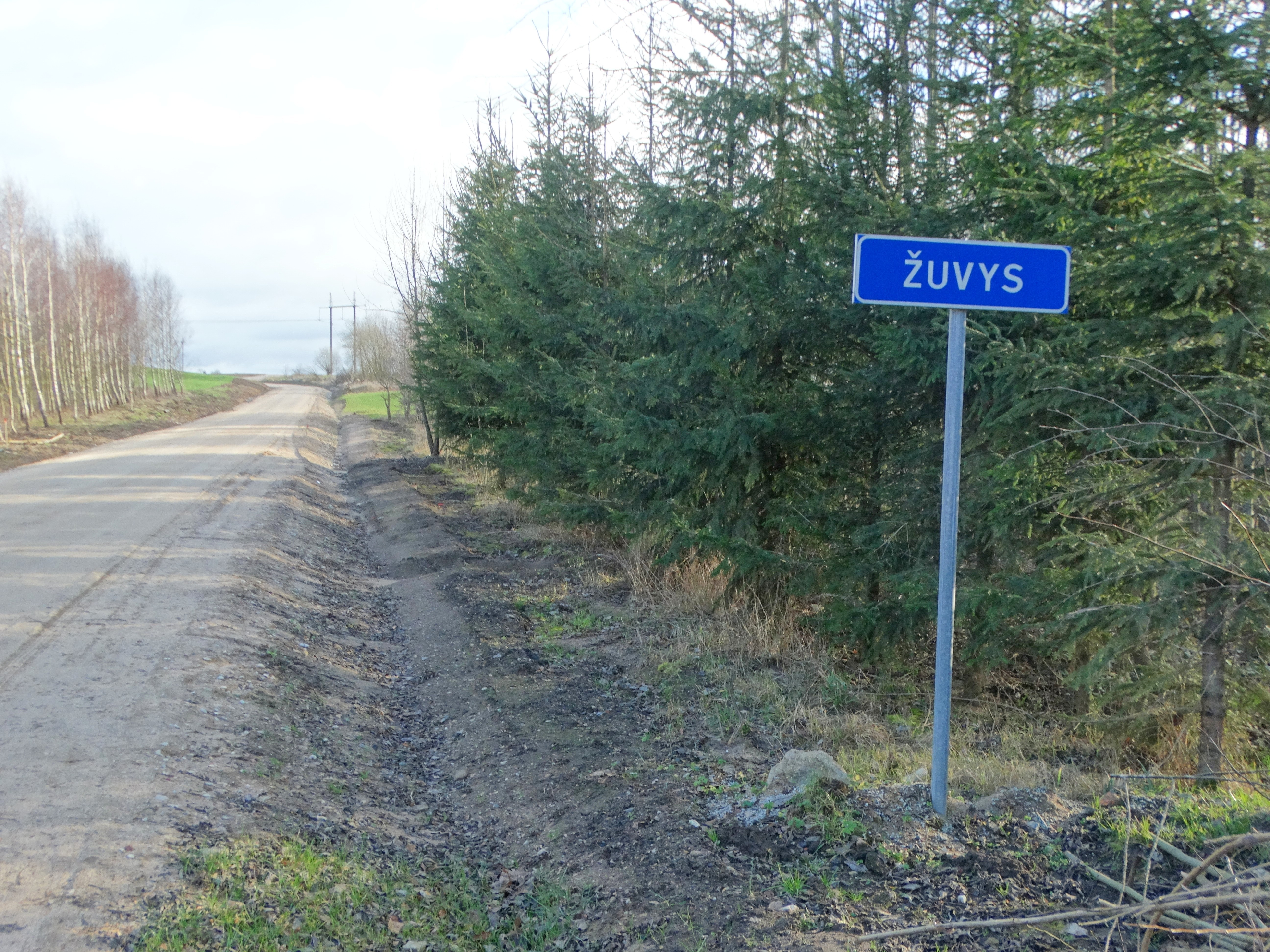 Žuvys, Kaišiadorys District, Lithuania